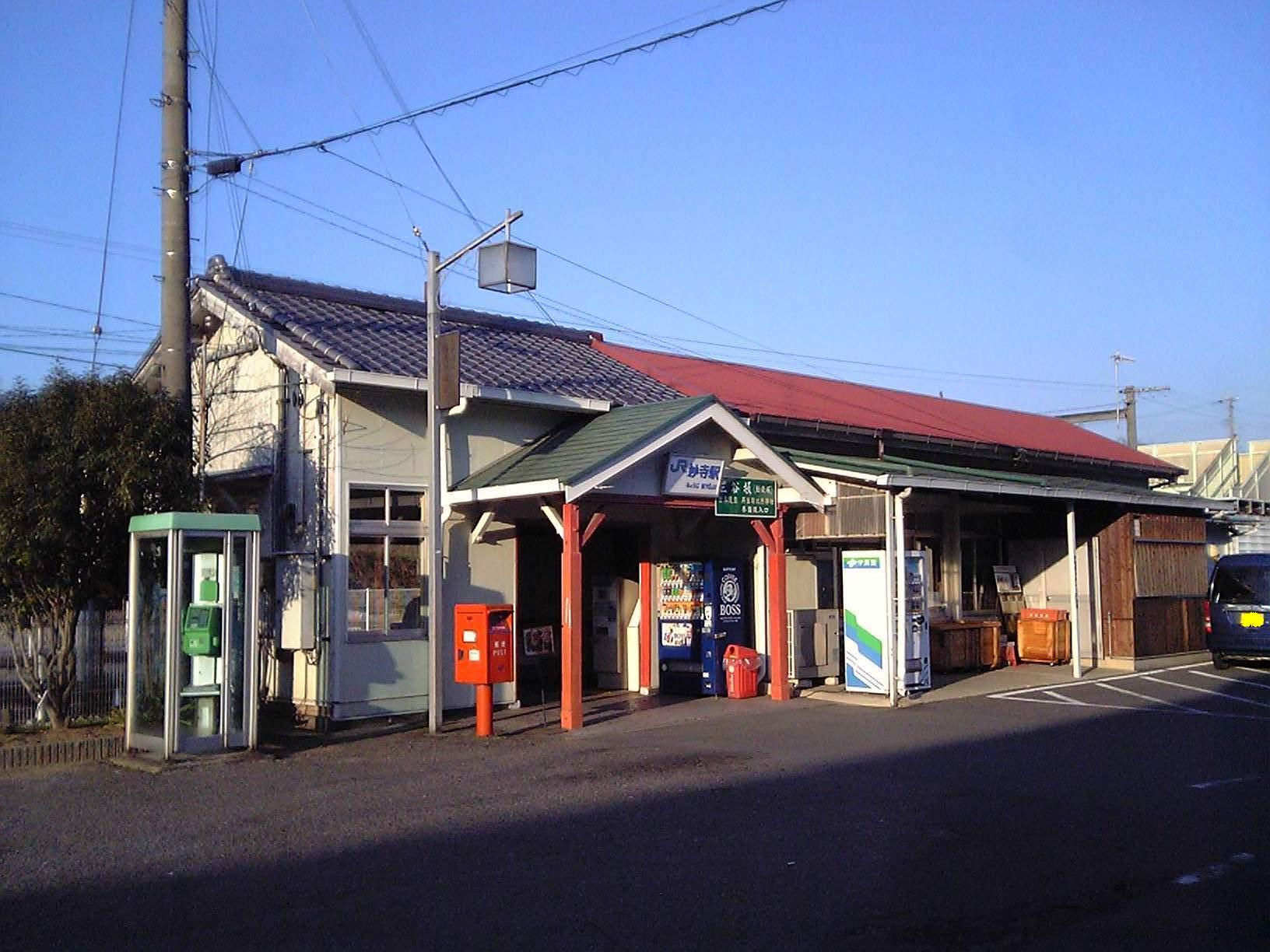 Myoji Station on JR West Wakayama Line